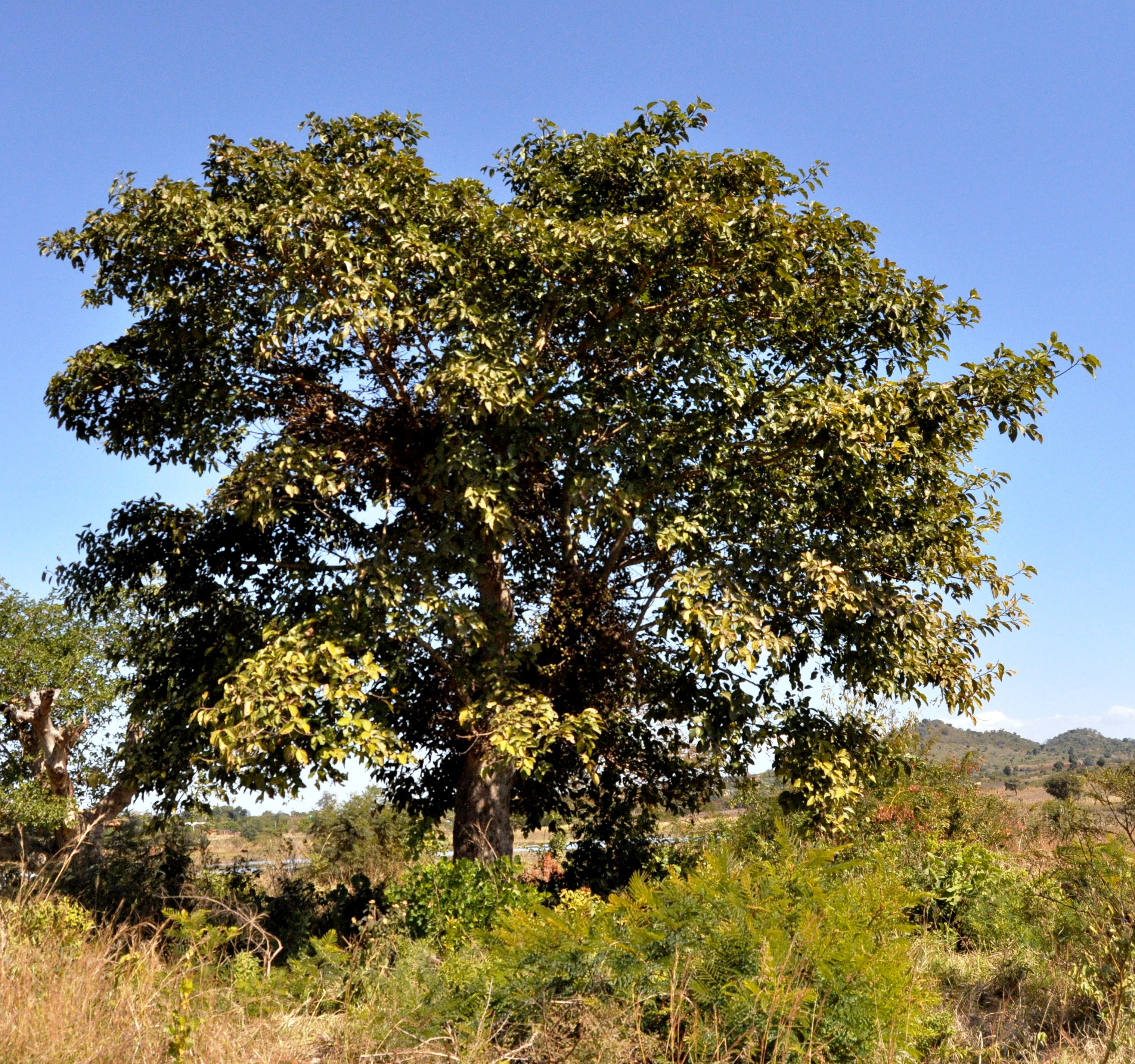 Cape fig beside a dam in Venda, Limpopo, South Africa